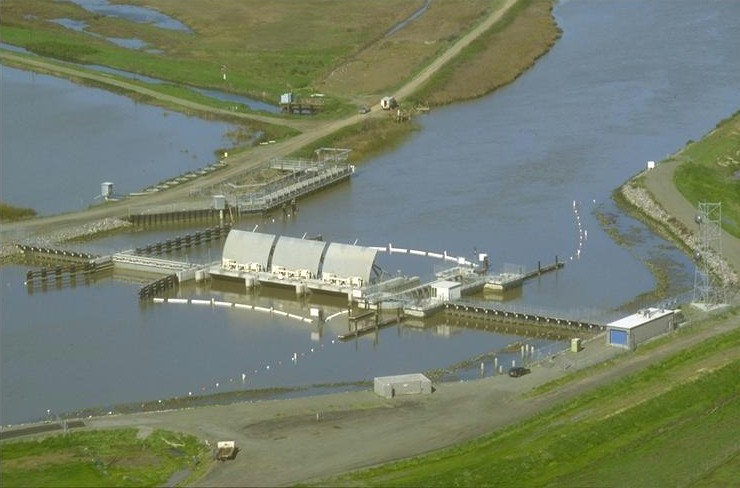 The Suisun Marsh Salinity Control Gates (foreground) span the Montezuma Slough at the Roaring River intake (background). They operate like a heart valve, allowing flow in only one direction. In this picture, the three gates are open to allow the freshwater ebb tide from the Sacramento-San Joaquin Delta to push the more saline Grizzly Bay water out of the slough.